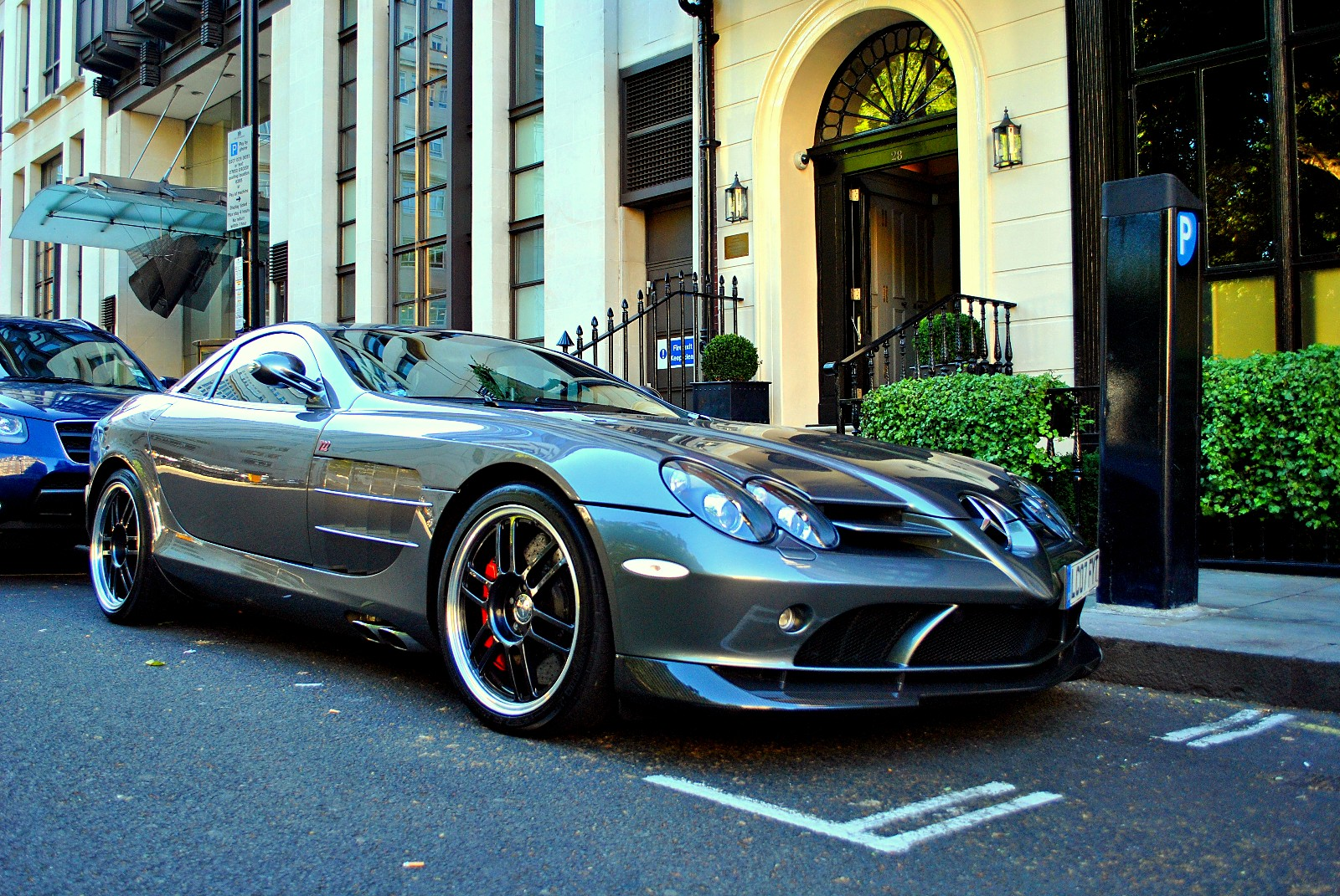 Mercedes McLaren 722 in London